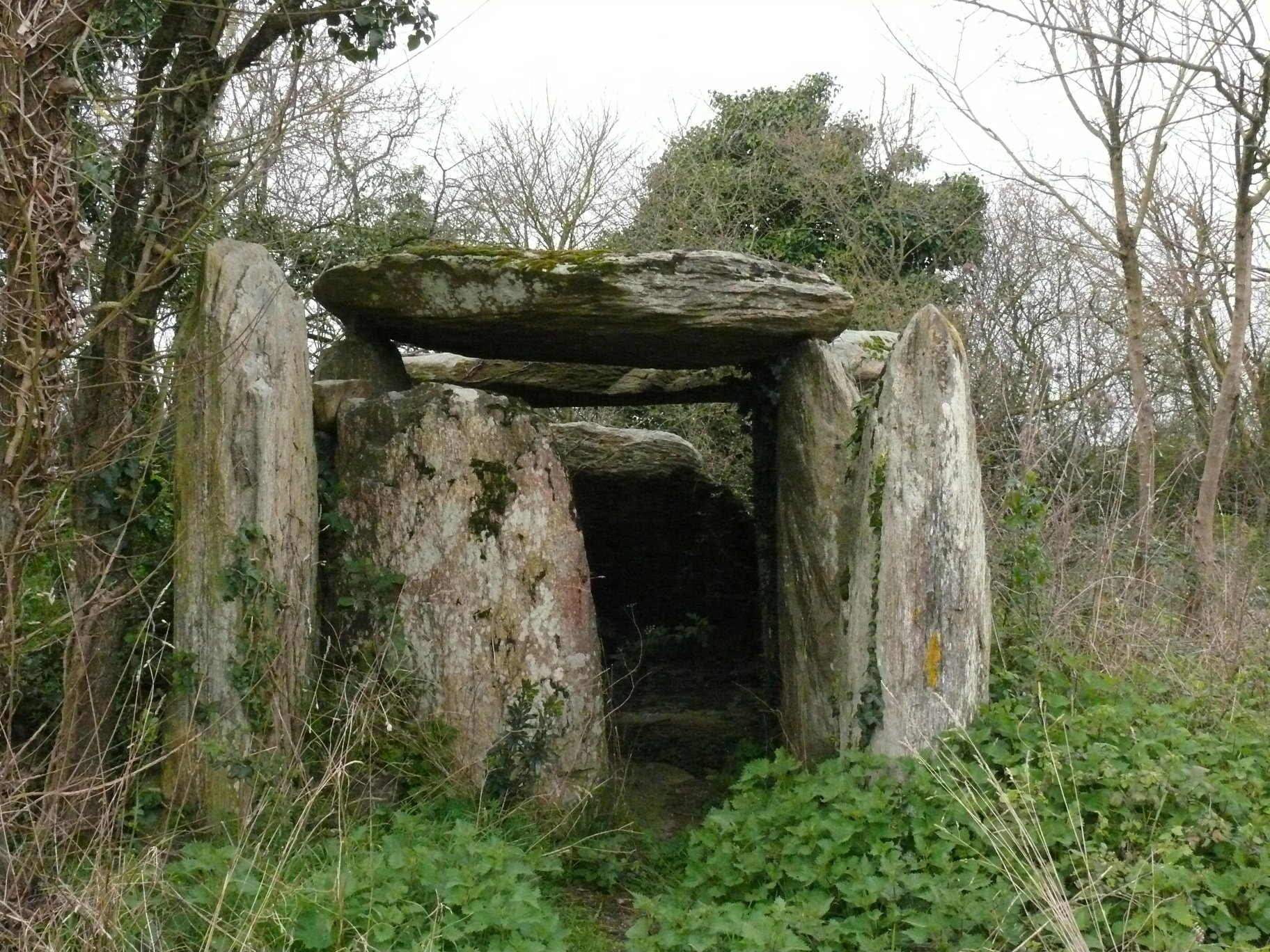 Fessine's dolmen in La Meignanne (Maine-et-Loire, Pays de la Loire, France).